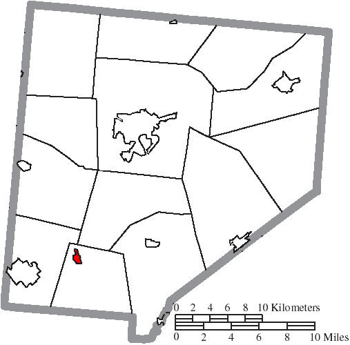 Map of the municipal and township boundaries of Clinton County, Ohio, United States, as of the 2000 census, with the location of the village of Midland highlighted. Township borders are shown only in unincorporated areas in order to differentiate incorporated and unincorporated areas more clearly.